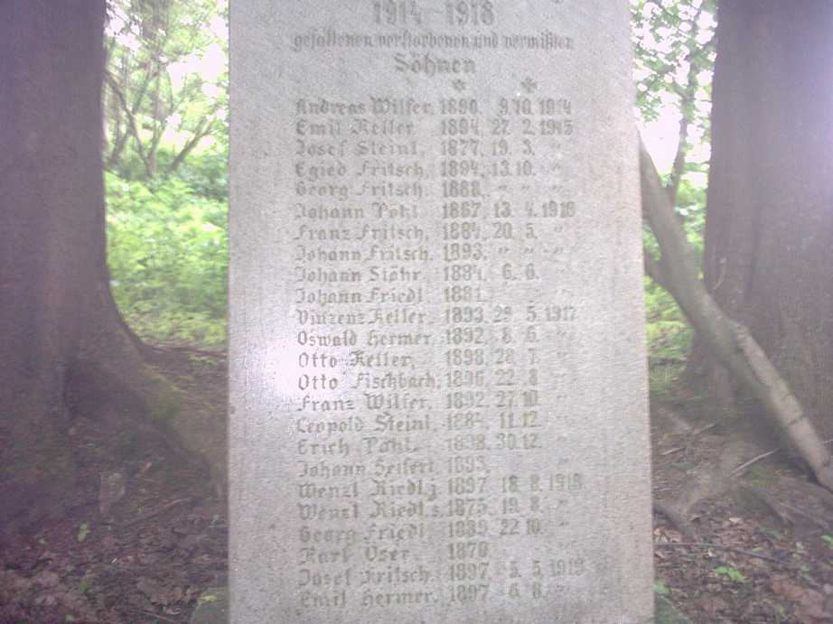 Výspa, Cheb District, Czech Republic; WW1 Memorial.